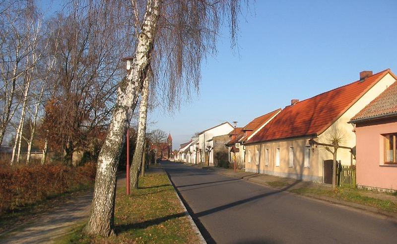 Street of houses in Fahlhorst. The village Fahlhorst is a part of the municipality Nuthetal in the district Potsdam-Mittelmark, state Brandenburg, Germany.